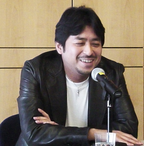 A photograph of Yu-Gi-Oh! creator Kazuki Takahashi in March 2005 at the Leipzig Book Fair Photograph: StGerner Date: 20 March 2005